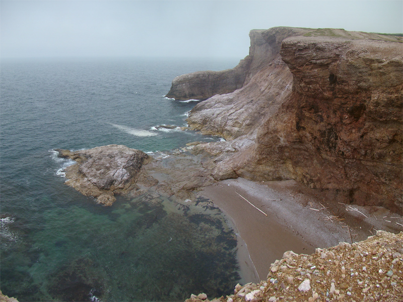 Park-Boutte du Cap, Port au Port Peninsula, Western Newfoundland, Canada. Under the morning fog.